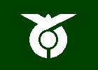 Flag of Nichinan Tottori